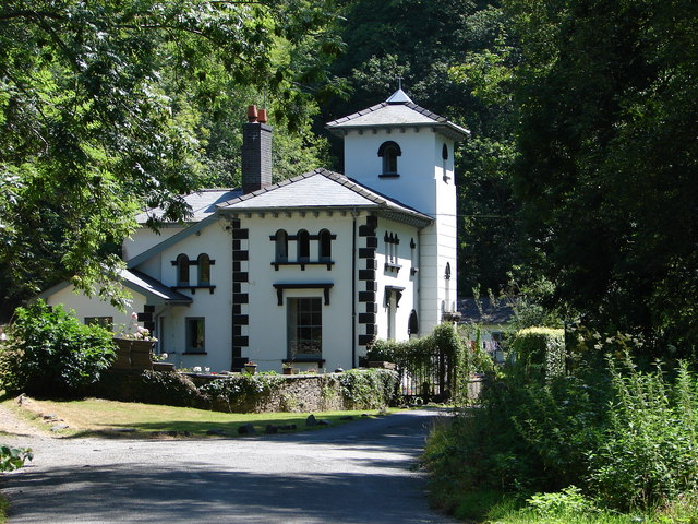 Nanteos Lodge - guarding the entrance to the estate, near to Rhydyfelin, Ceredigion/Sir Ceredigion, Wales, UK. Nanteos was once a country mansion but is now a hotel and events centre. Legend has it that the 'Holy Grail' reposed there at one time. More information about Nanteos can be found here: Link